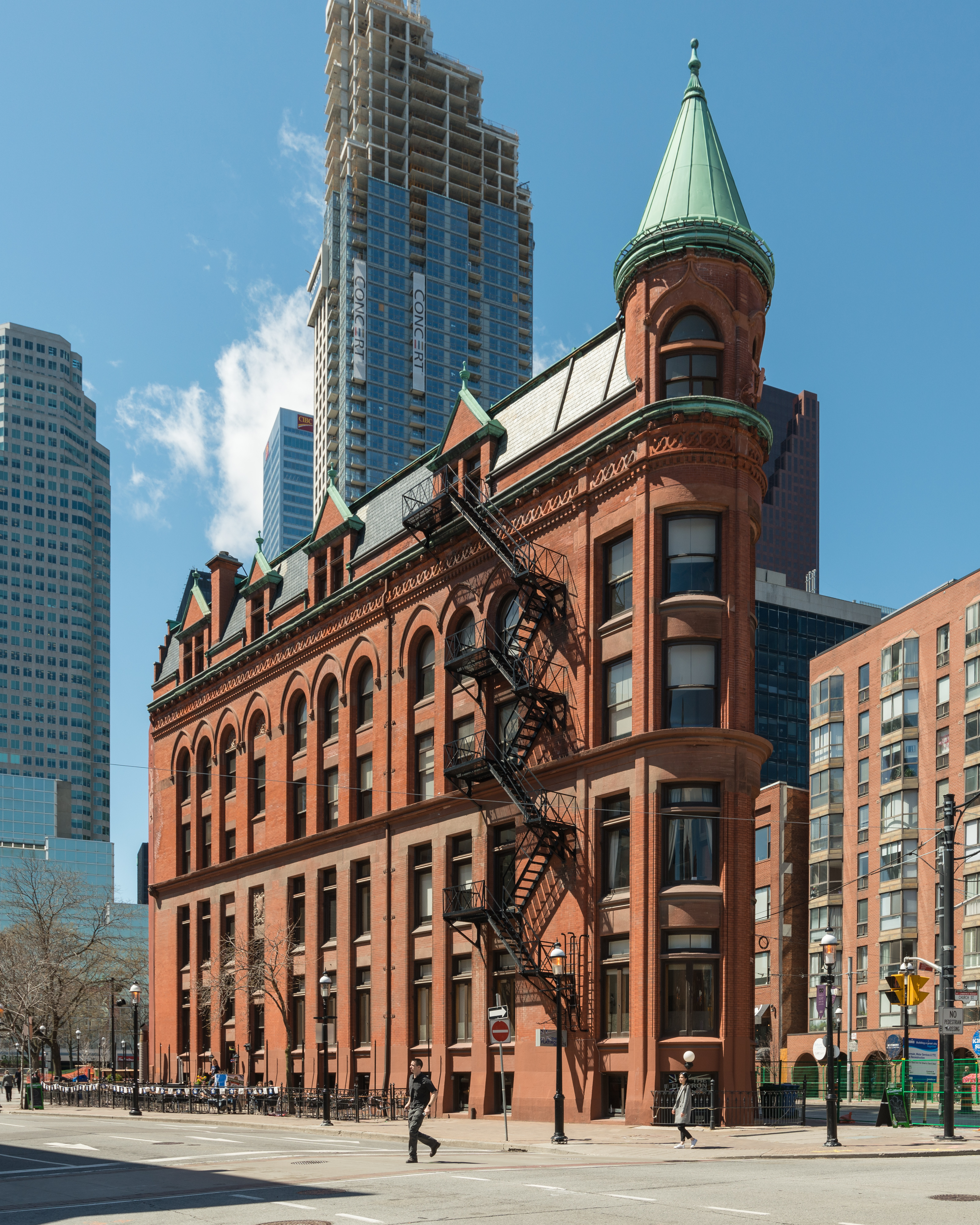 An east view of Gooderham Building, commonly referred to as Flatiron building, Toronto